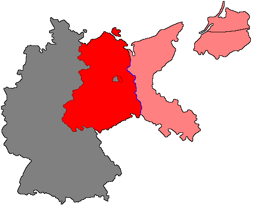 Based on the following free source as template Image:Soviet Sector Germany.png. Shows the parts of Eastern Germany that were occupied by the Soviet Union, including the part that later became East Germany in Red, the rest in Pink (shared between Poland and the Soviet Union, but not recognized as lost by West Germany until 1970).